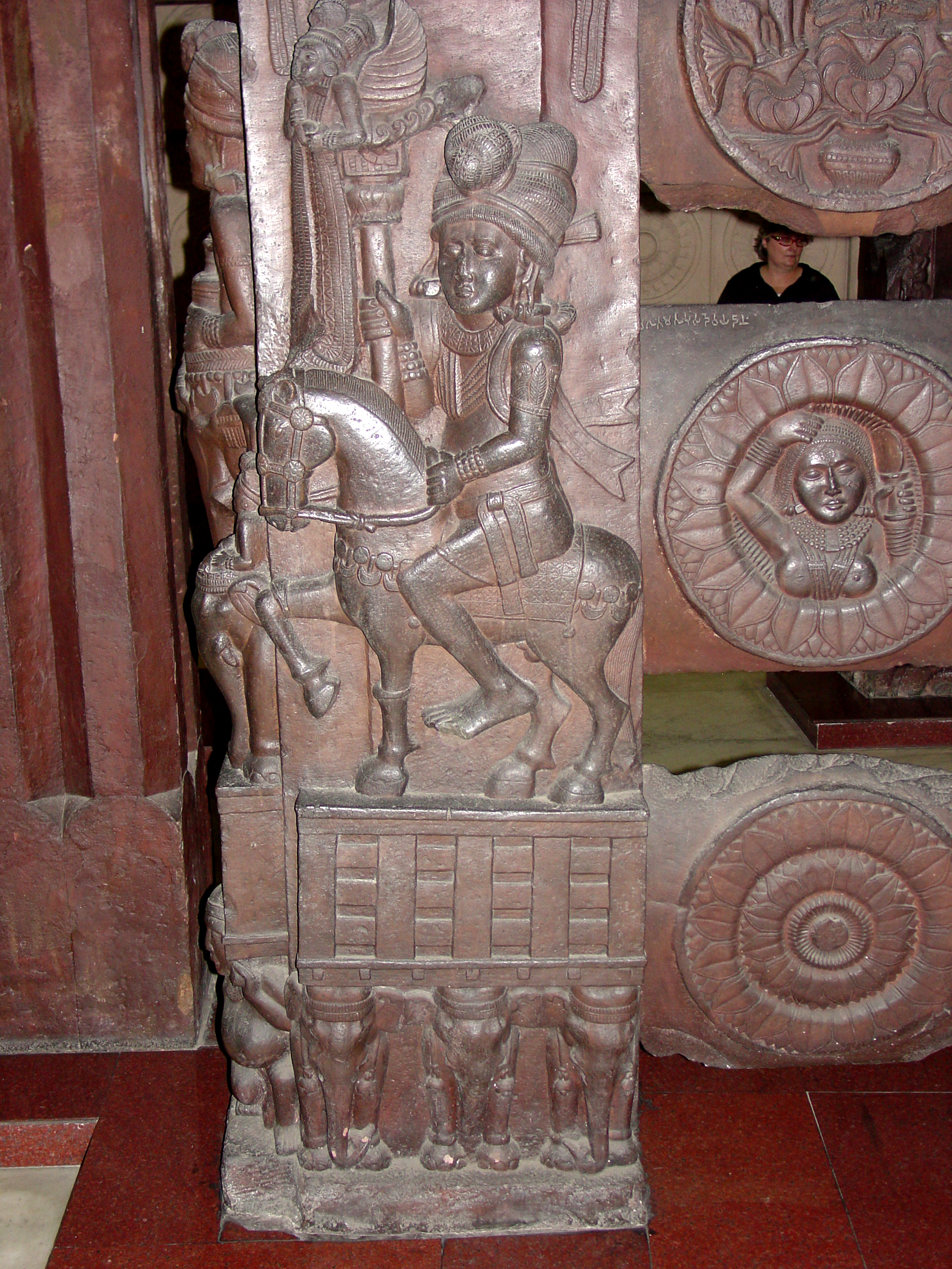 Procession on Horseback. Bharhut, c. 100 BC. Indian Museum, Calcutta The princely figure on horseback is holding a royal standard that is topped by the figure of a kinnara.